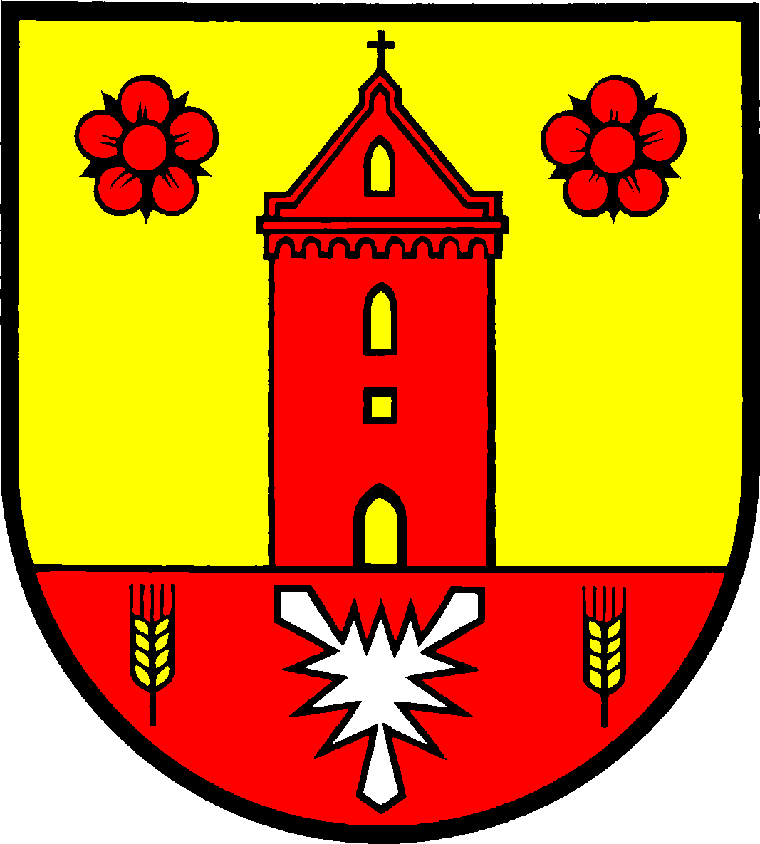 Coat of arms of the municipality Schönkirchen in Schleswig-Holstein, Germany.